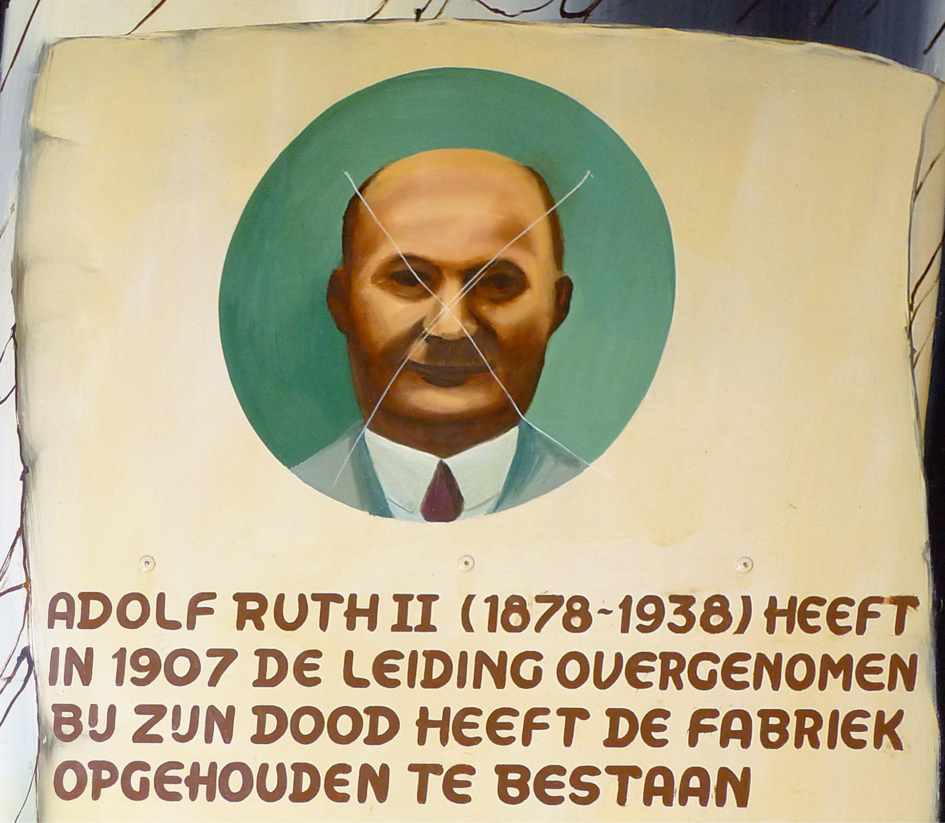 Adolf Ruth II (1887-1938)